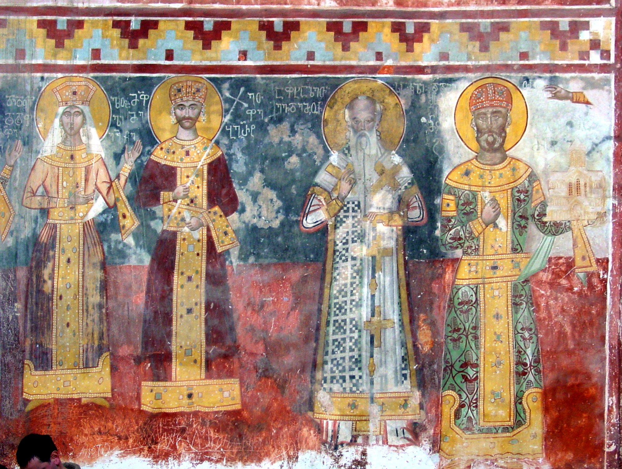 Mural inside the Gelati monastery has images of great Goergian Kings and queens. The rightmost is king David II the Builder, unarguably the most revered king of Georgia.